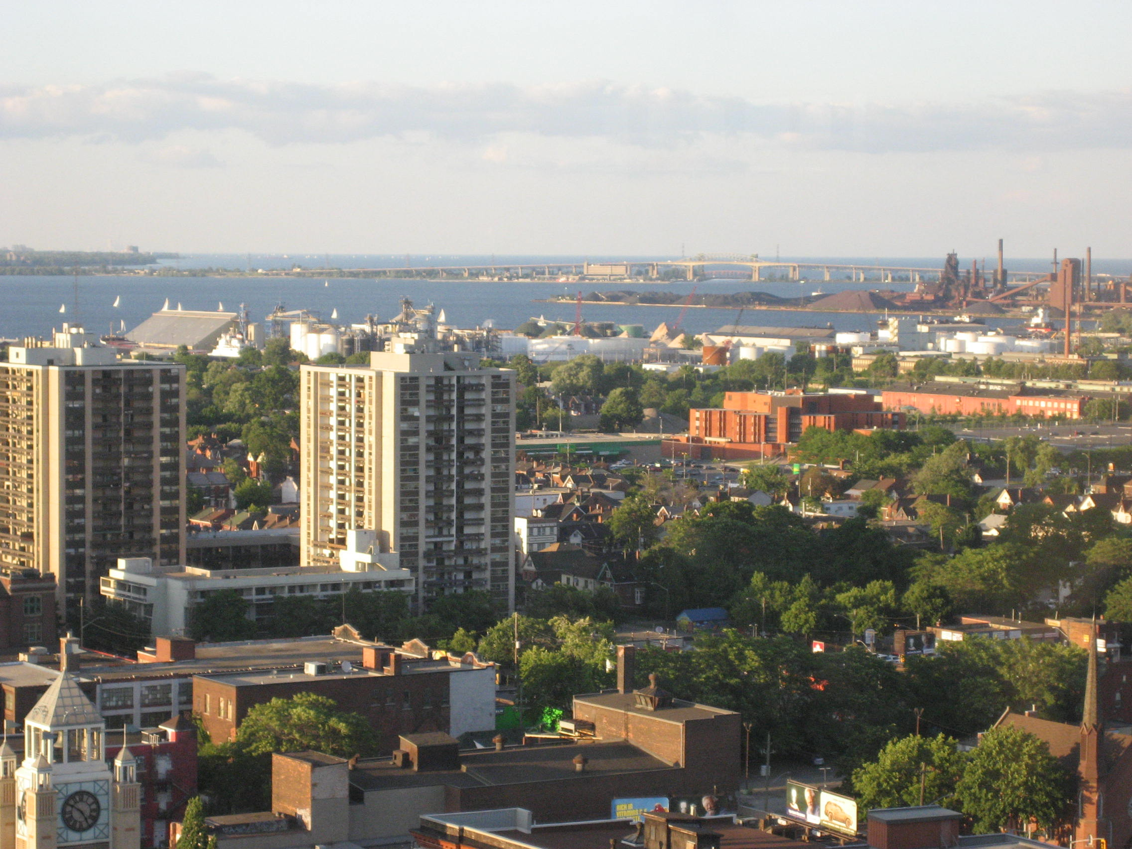 North End, Stelco + Skyway Bridge, view from atop of Stelco Tower, downtown Hamilton